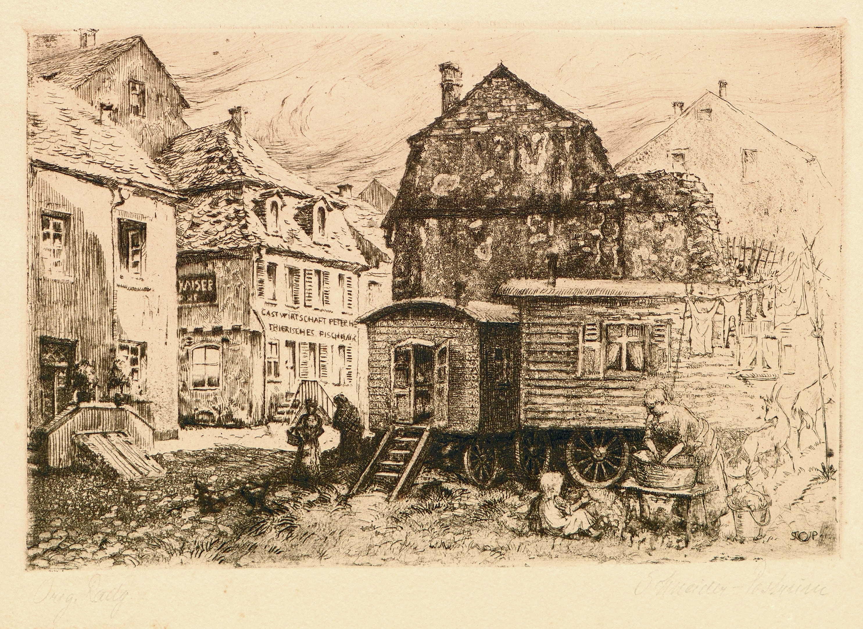 Anton Schneider-Postrum, etching (1919): "Trierisches Fischhaus", Trier, St.-Barbara-Ufer, size: 25.7 cm x 14.5 cm, size of the entire sheet: 27.0 cm x 37.3 cm Anton Schneider-Postrum (1869–1943) Description painter and art educatorDate of birth/death 13 June 1869 24 May 1943 Location of birth/death Jablonné v Podještědí TrierWork location Trier Authority control : Q18642598 VIAF: 287381858 GND: 1028592493 creator QS:P170,Q18642598